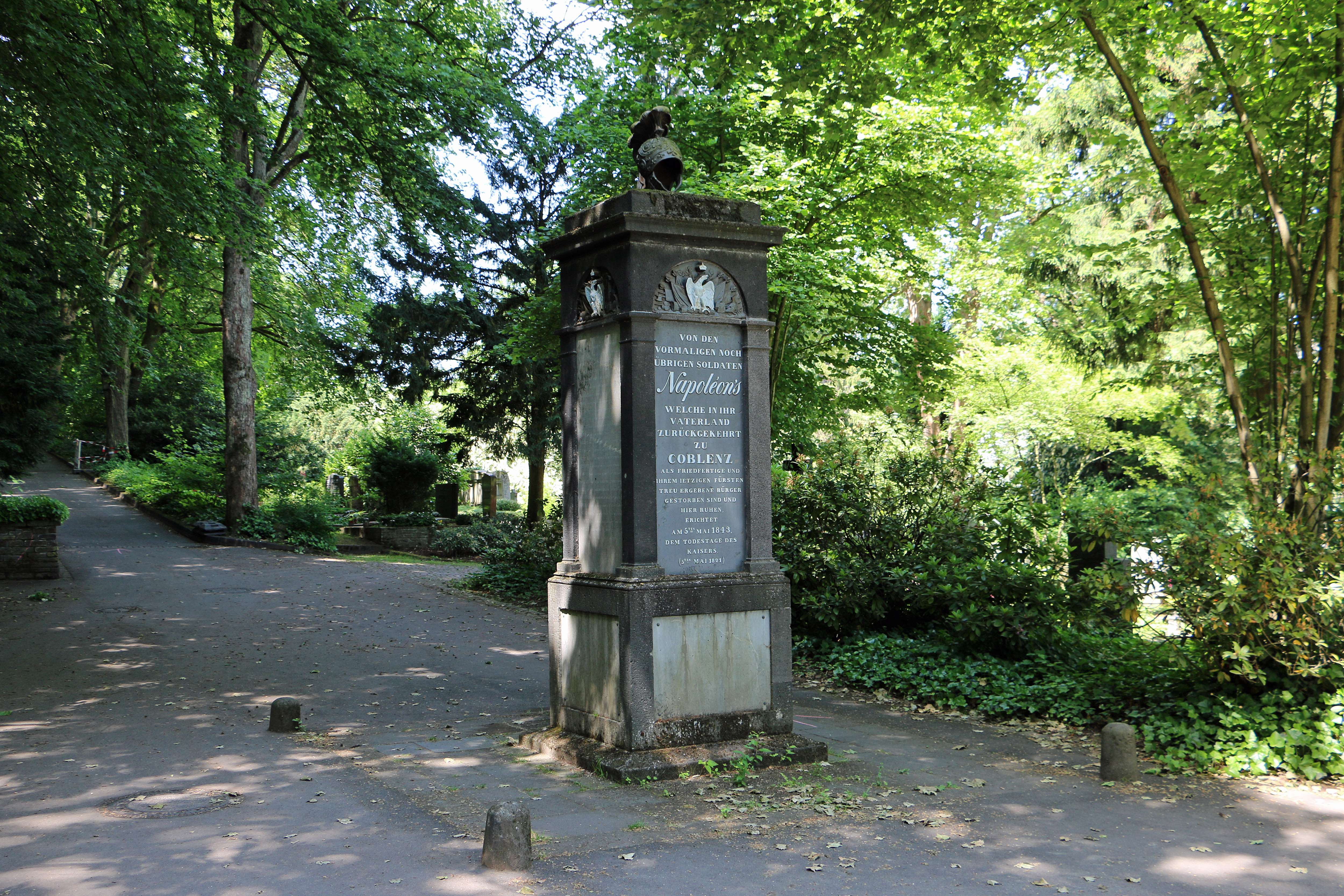 Napoleon stone in Koblenz